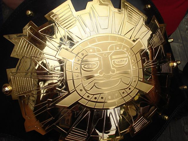 GLL Hatun Auqui International Title